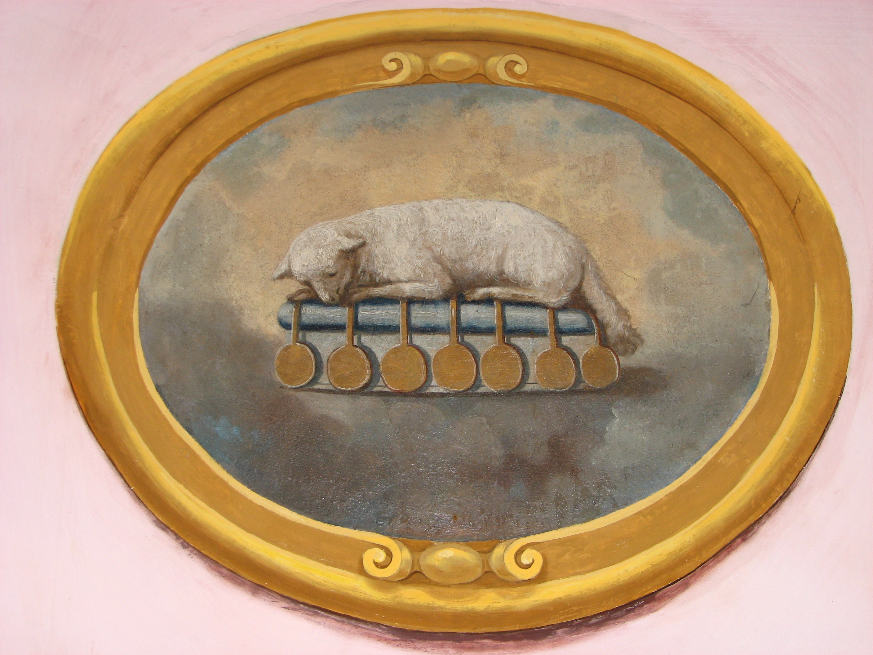 The fresco of the Agnus Dei from the sanctuary of the Greek Catholic Cathedral of Hajdúdorog, Hungary. The fresco was painted in the end of the 18th century on the Eastern wall of the sanctuary of the church, behind the main altar so that the priest during the holy mass could face the Lamb of God. The Agnus Dei was painted on the Book of the Seven Seals.